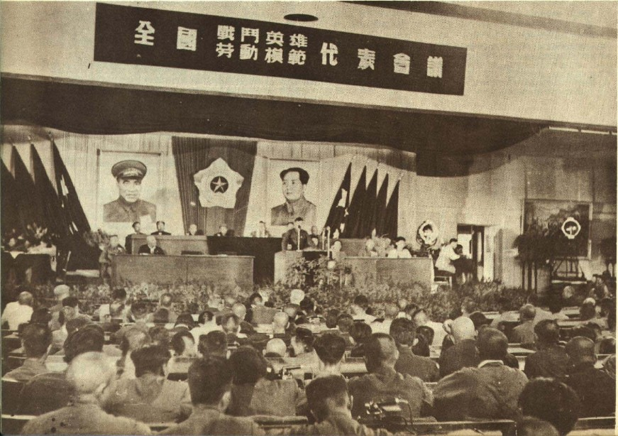 1950年10月，中华人民共和国全国战斗英雄会议，1950年8月的《人民画报》。